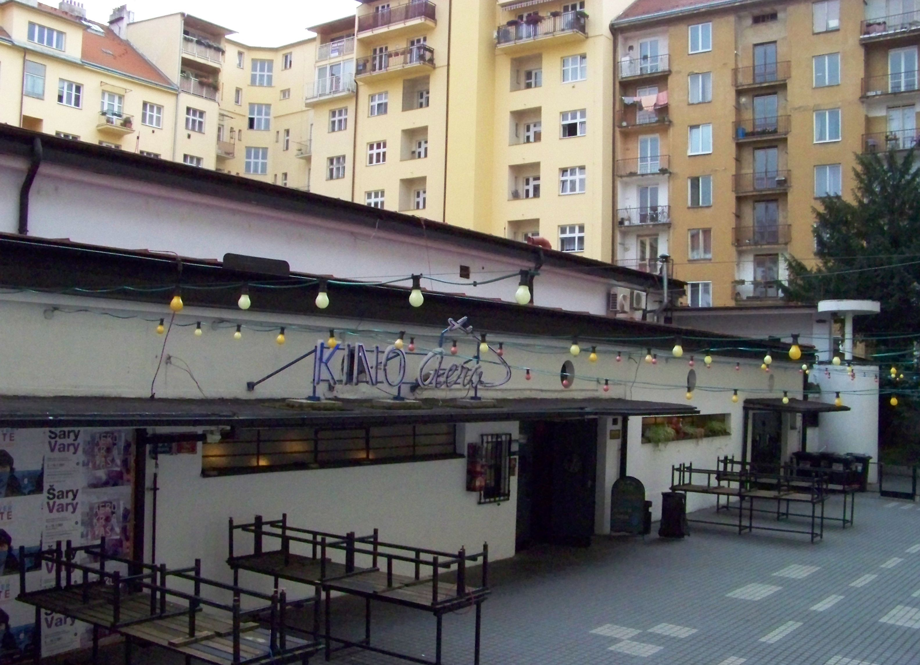 Prague-Žižkov, the Czech Republic. Kino Aero cinema. - OpenStreetMap(Info)